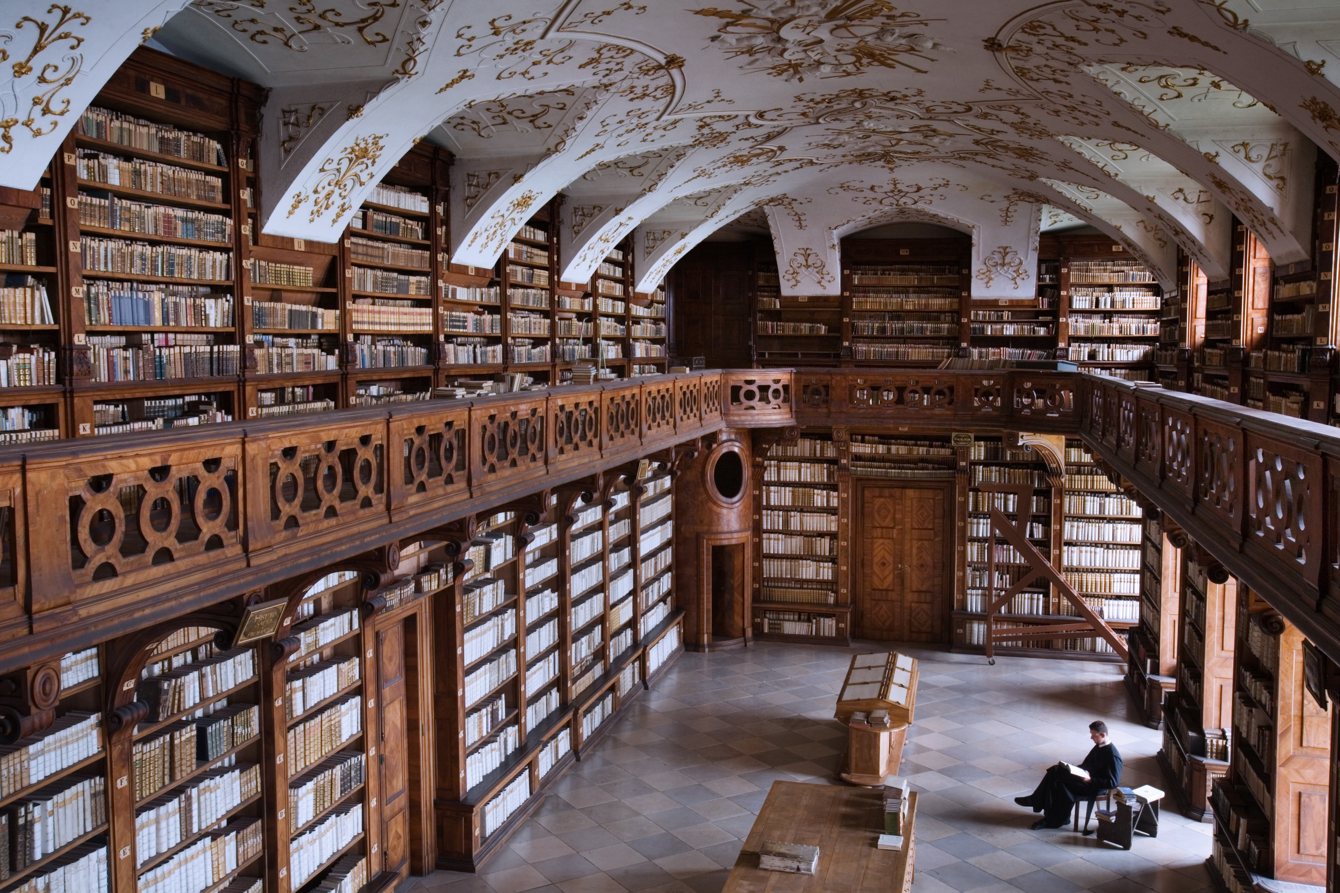 Göttweig Abbey library, Austria